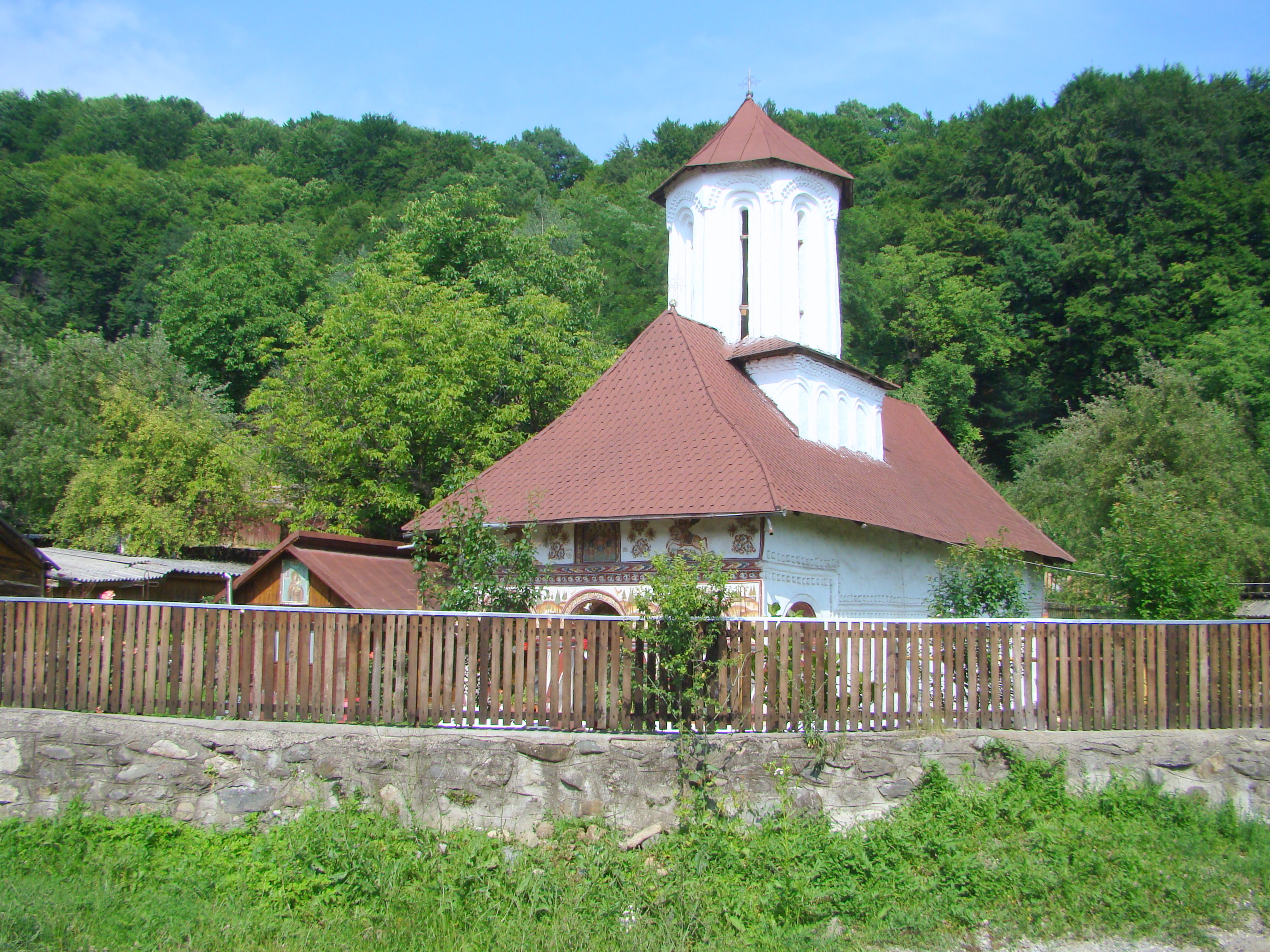 Archangels' church in Olănești, Vâlcea county, Romania